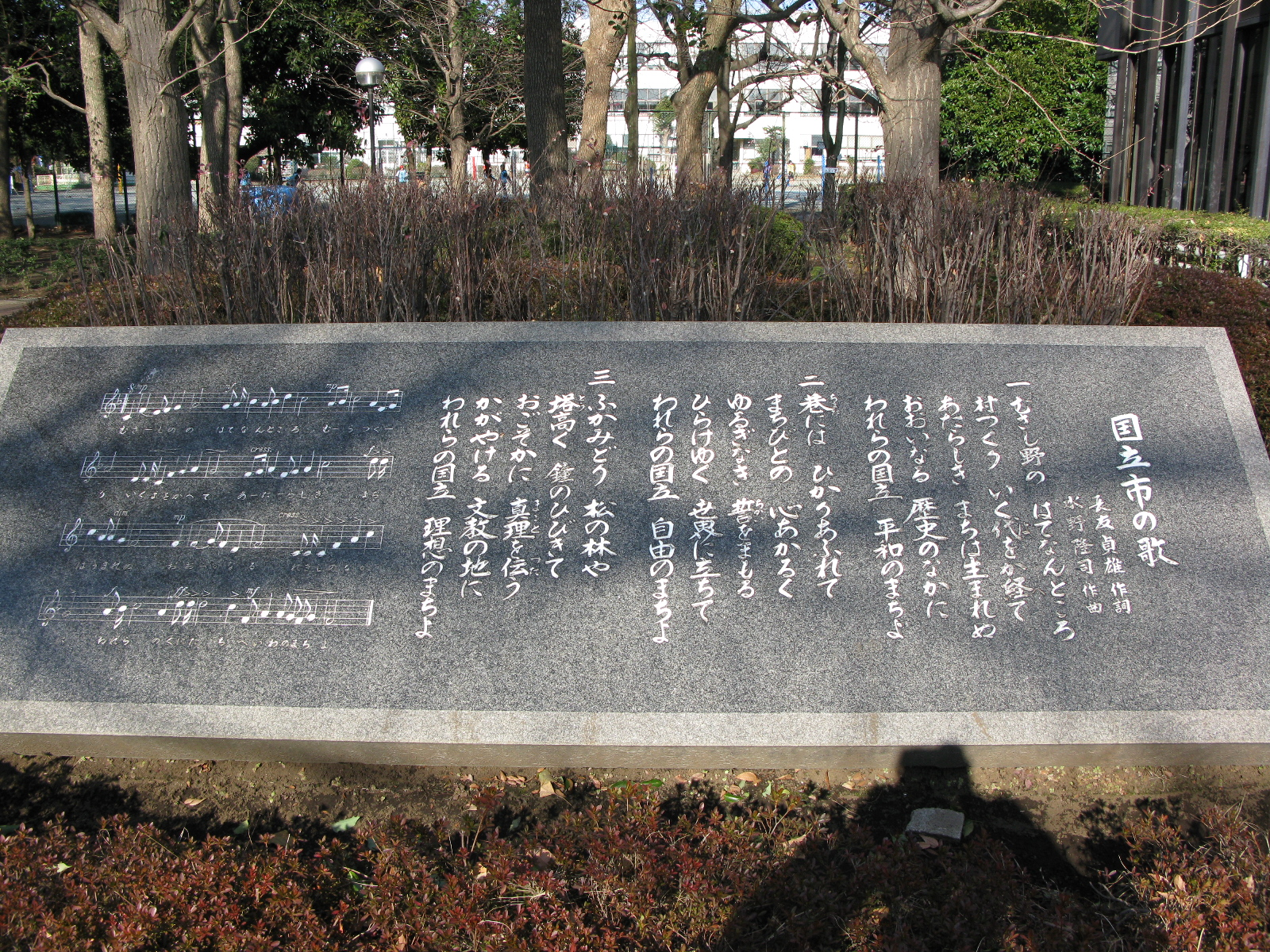 A flag stone inscribed with the song of Kunitachi, Tokyo, Japan